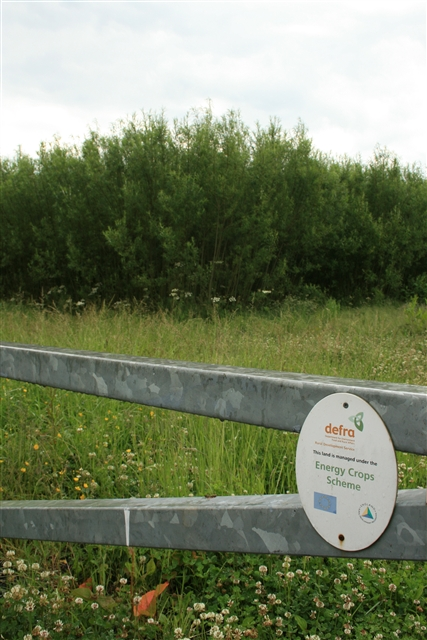 DEFRA Energy Crops scheme plantation. The sign states that this plantation is supported by the above scheme, now superseded by another under the Rural England Development Scheme . Energy crops of this sort can be used in conventional power stations or specialised electricity generation units, reducing the amount of fossil fuel-derived CO2 emissions. Close-up: 545443